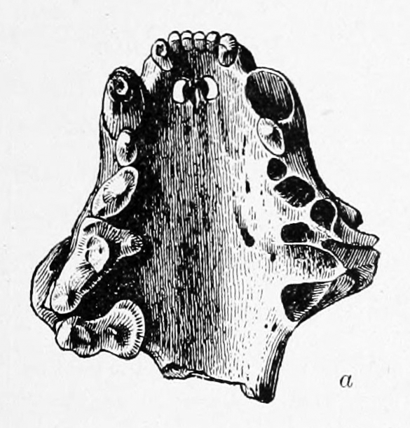 Portion of sea mink skull